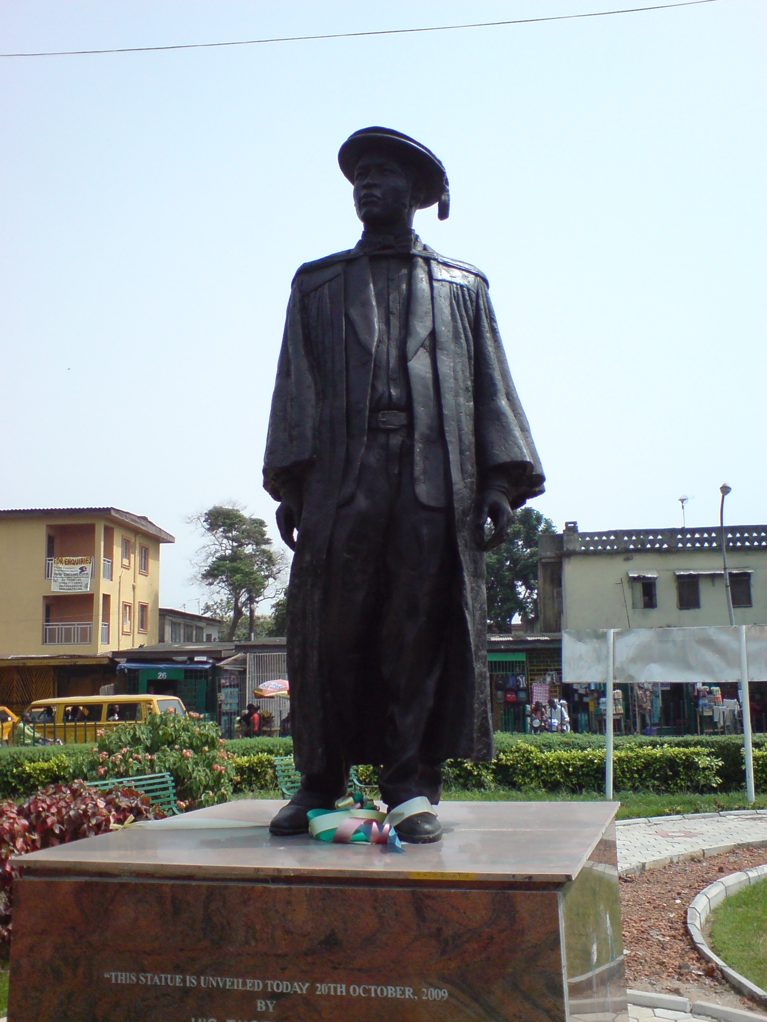 Picture shows a sculpture of Ayodele Awojobi erected on a marbled base, within a memorial park, at Iwaya, Yaba, in Lagos State, Nigeria. Krrush (talk) 19:50, 11 December 2009 (UTC)